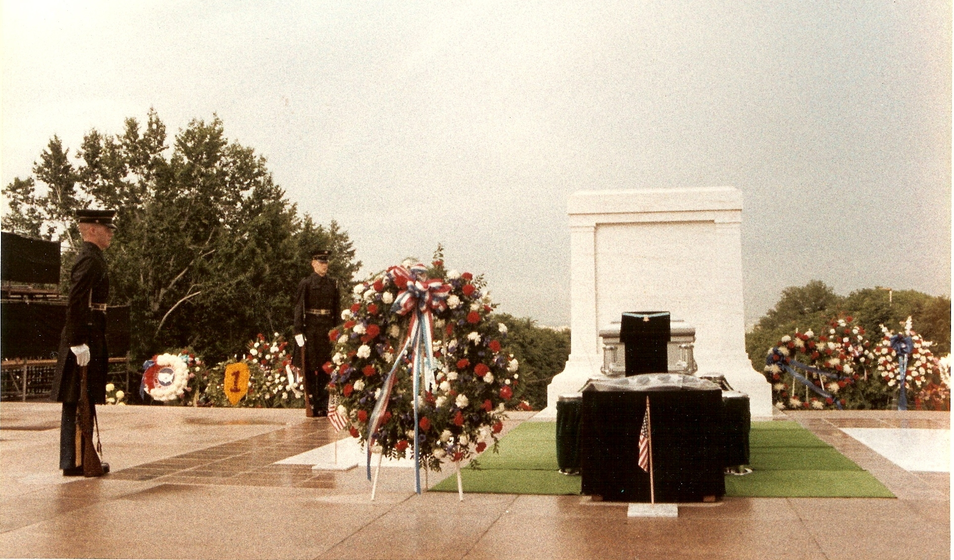 Watch at the Tomb of the Unknowns over the body of the Vietnam War Unknown Soldier. This is my personal picture as I'm the tomb guard in the rear facing toward the camera.